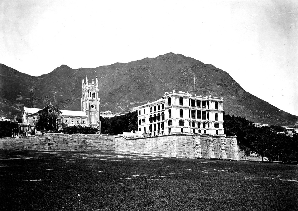 photo from Album of Hongkong Canton Macao Amoy Foochow